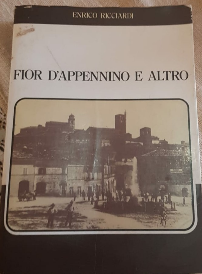 Book "Fior D'appenino e altro", author Enrico Ricciardi, publisher City Circle, Sarnano city, year 1985